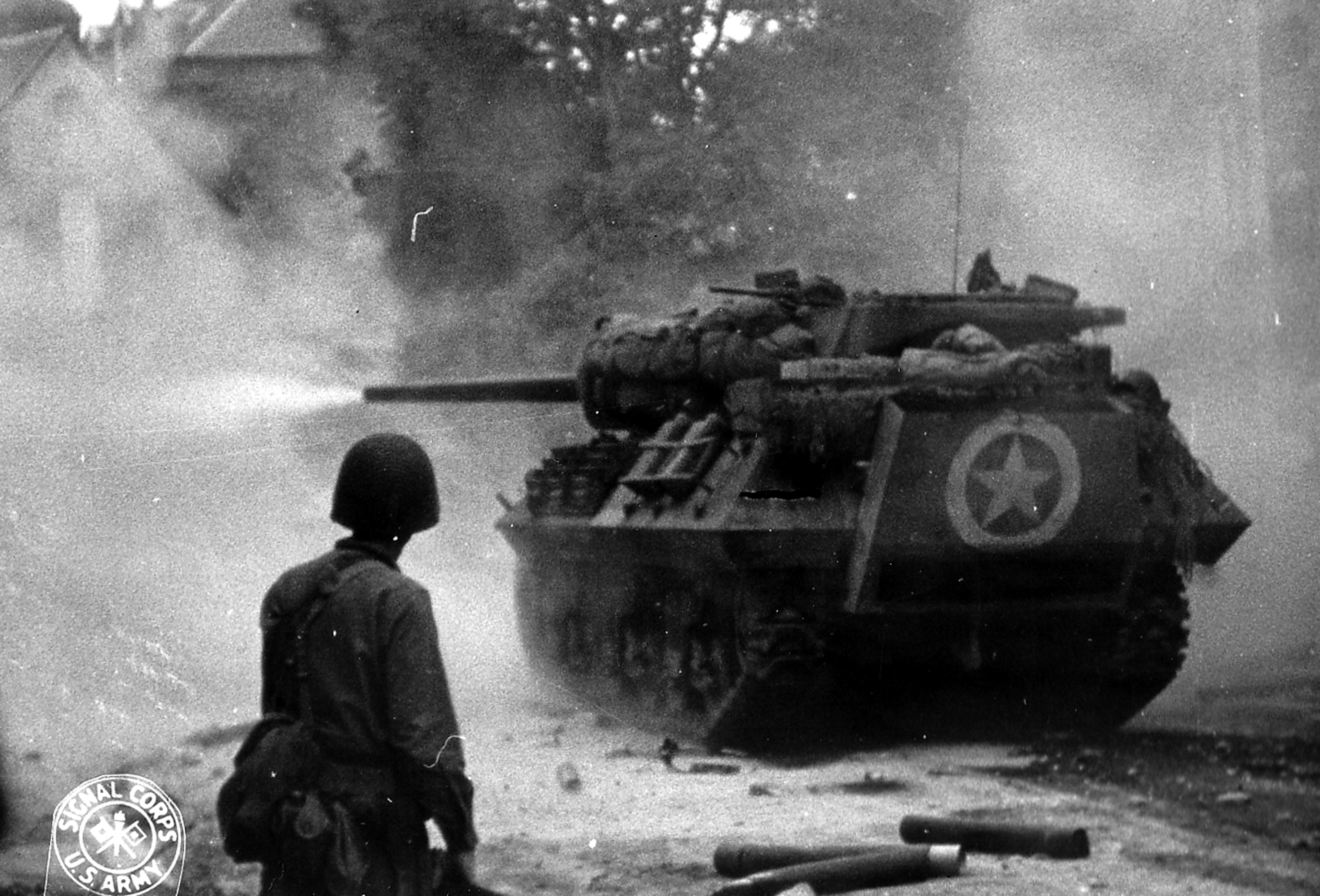 American tank destroyer firing near Saint Lo, June 1944.